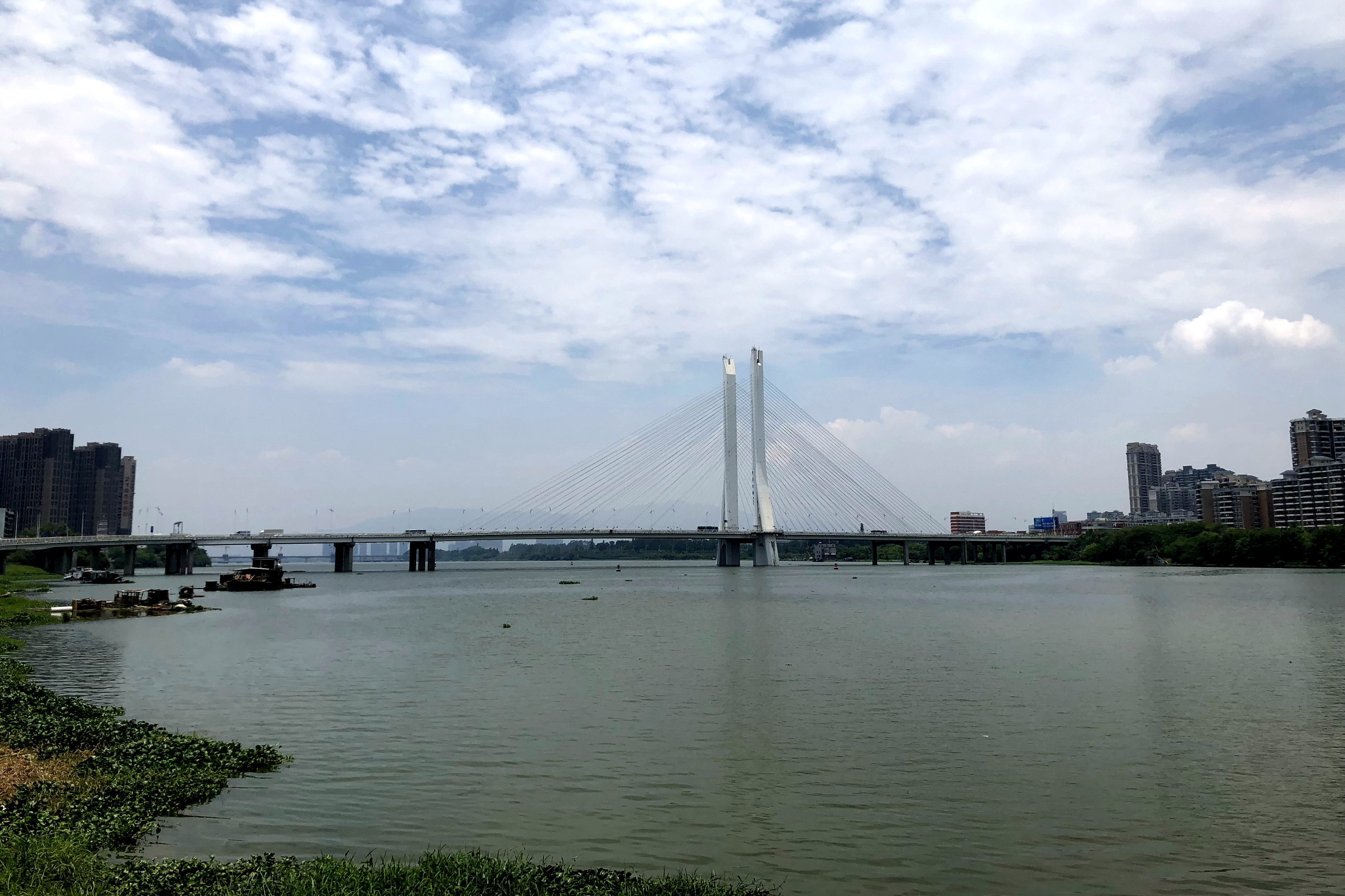 Hesheng Bridge